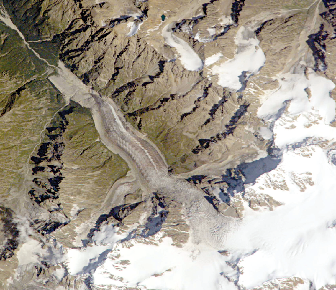 Image taken from the International Space Station in 2002, showing the retreating Lednik Karaugom (lat 42°48′N., long 43°44′E.). Note that cirques of tributary glaciers are becoming partially ice free. The glacier at this point was 13.3 km long, and 26.6 km2 in area.